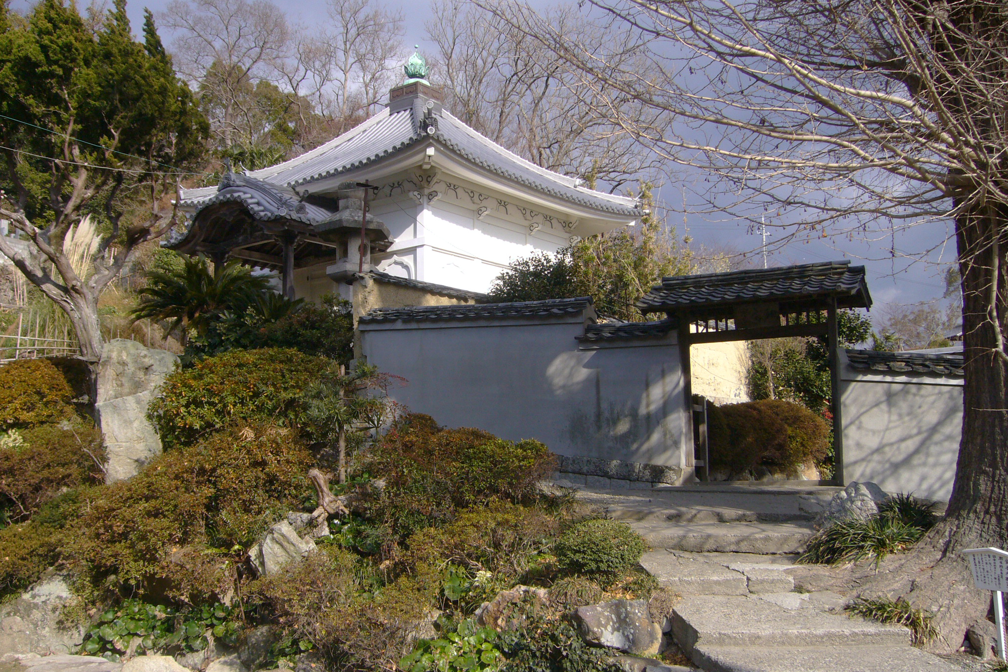 Myodoji in Sakoshi, Ako, Hyogo prefecture, Japan